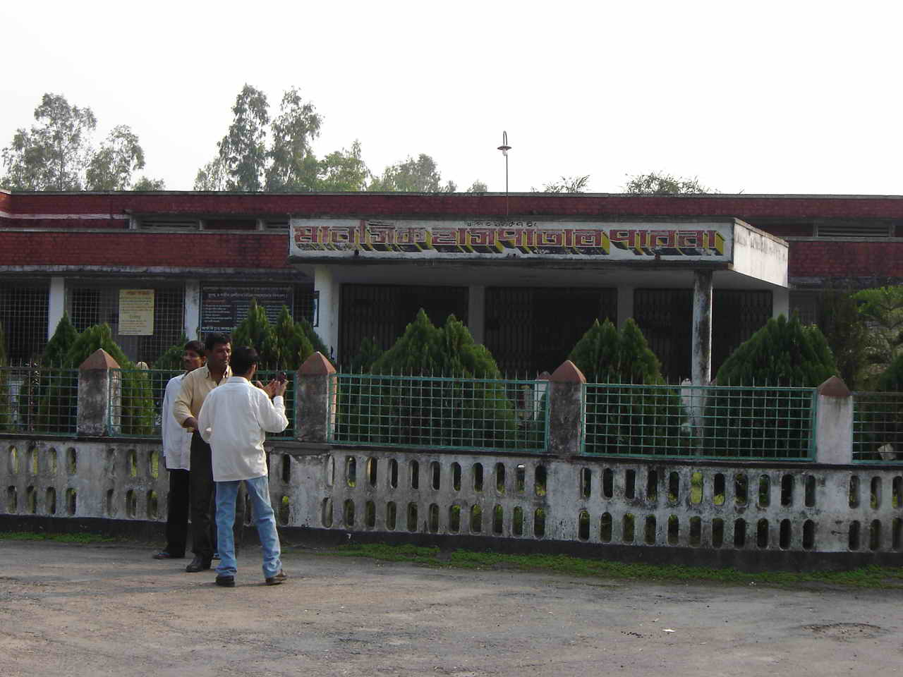 The largest mental hospital in Asia. Situated in Pabna city, Bangladesh.